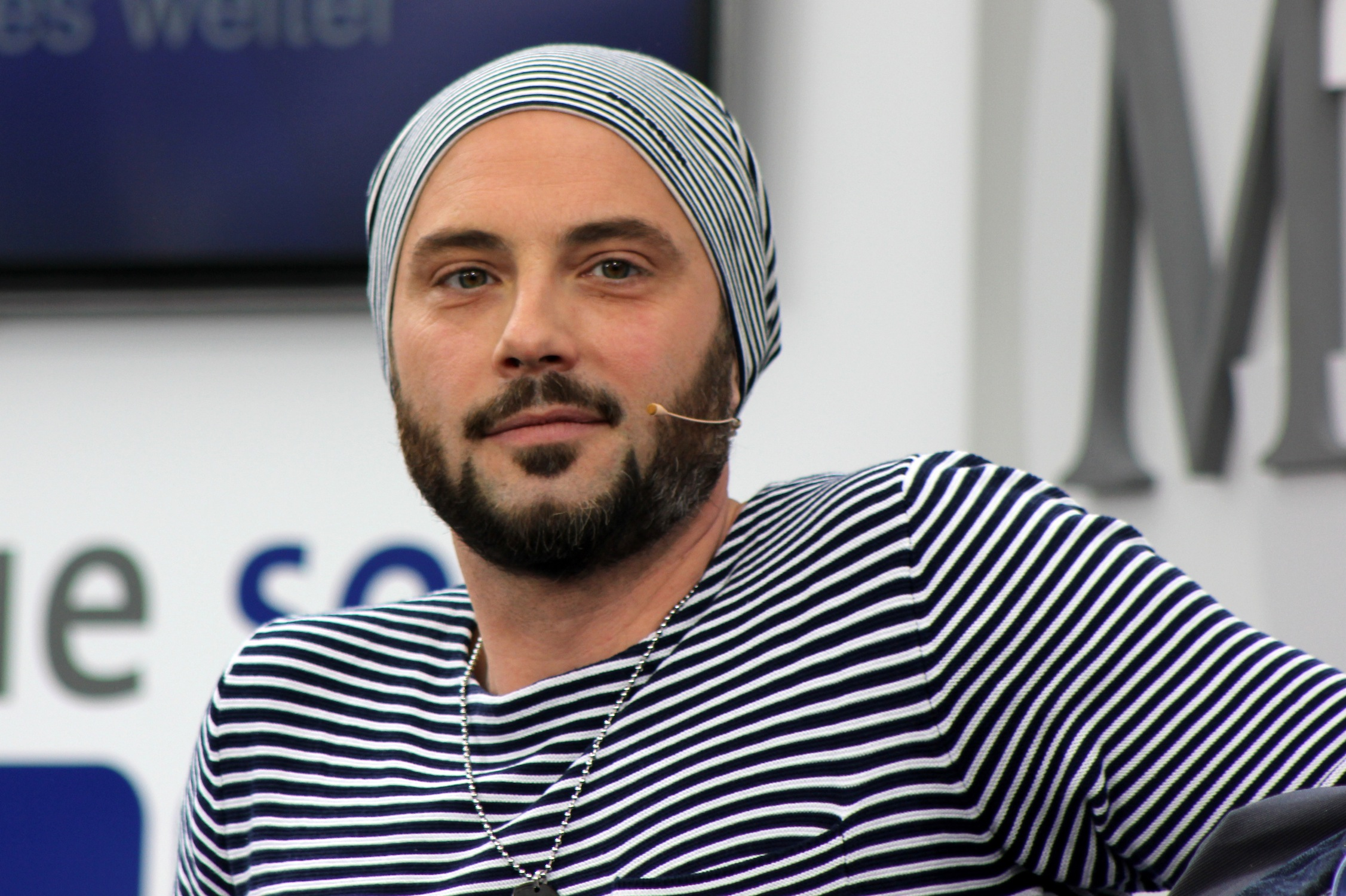 Volker Klüpfel, Leipzig Book Fair 2013